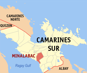 Map of Camarines Sur showing the location of Minalabac